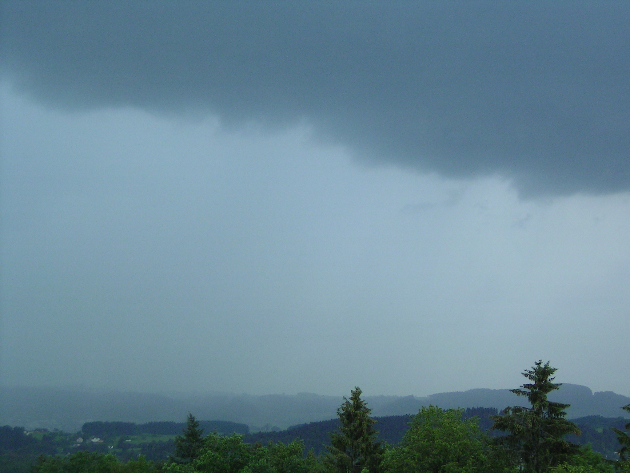 Its raining everywhere, but not here...